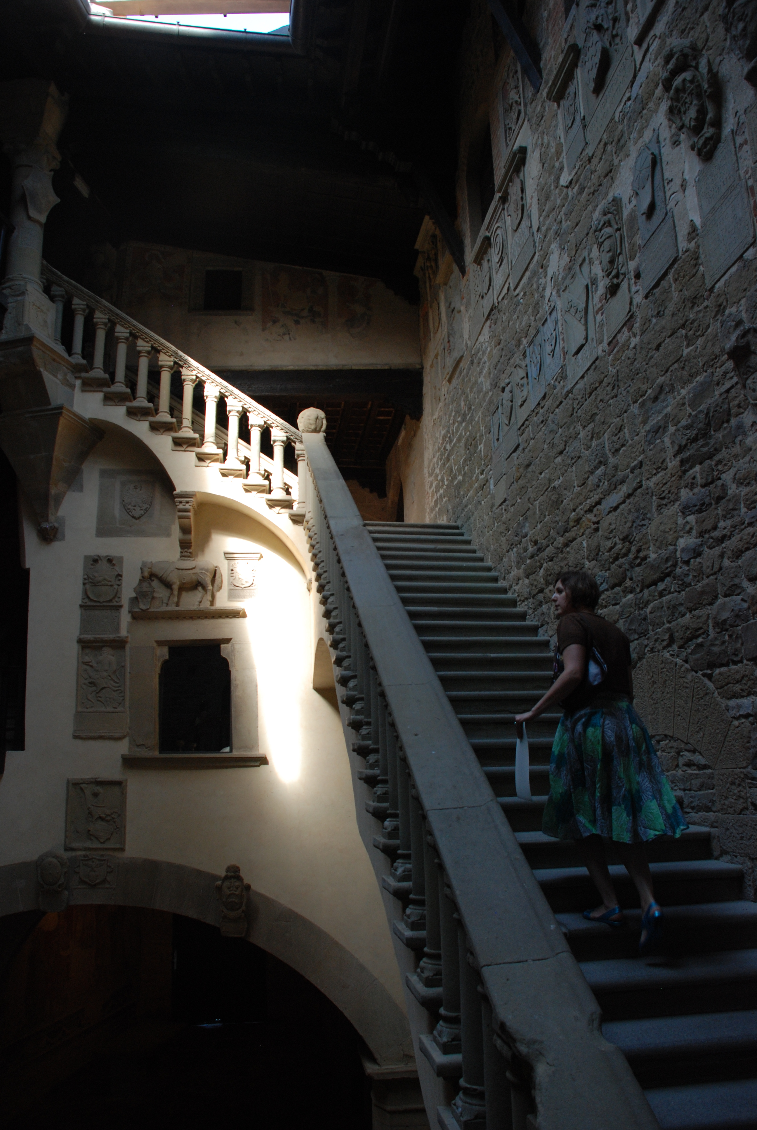 View of the main Central Staircase, Poppi Castle (Castello dei Conti Guidi). In Poppi, Tuscany, Italy.